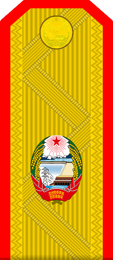 Rank insignia of the Vice-Marshal of the DPRK, used in 1953.